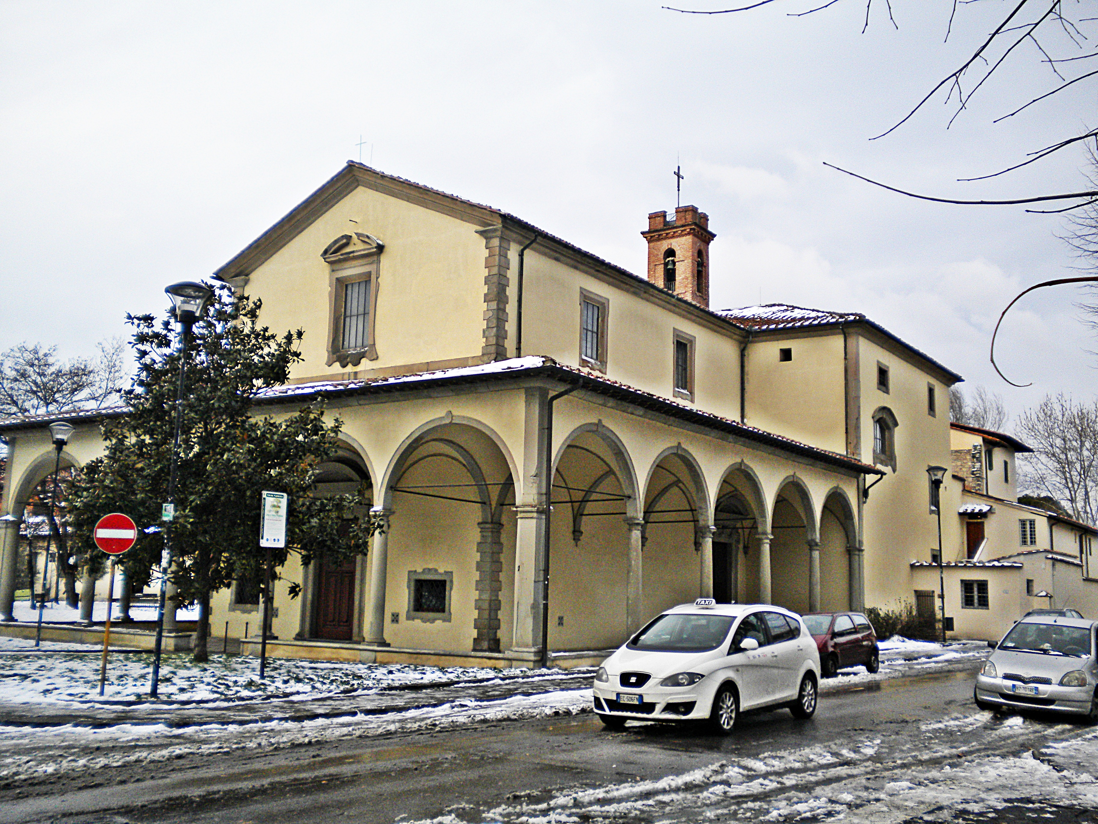 Santa Maria church with snow